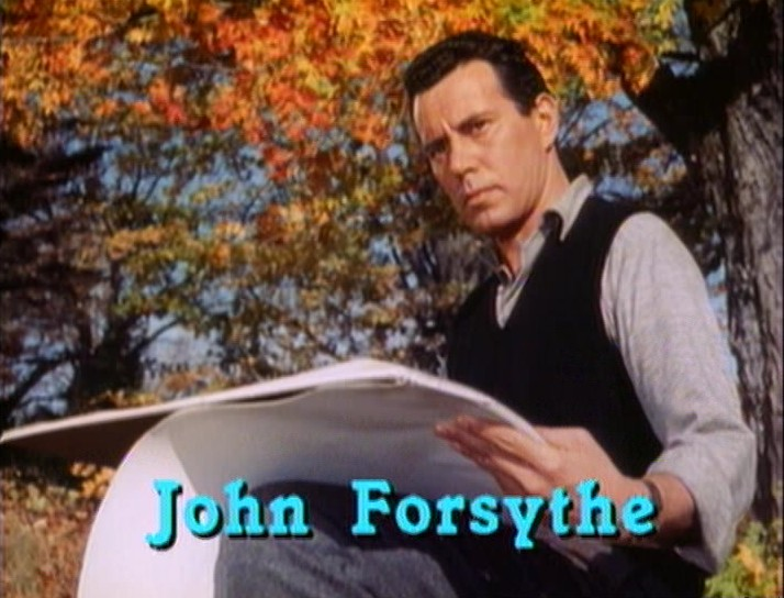 Cropped screenshot of John Forsythe from the trailer for the film The Trouble with Harry.